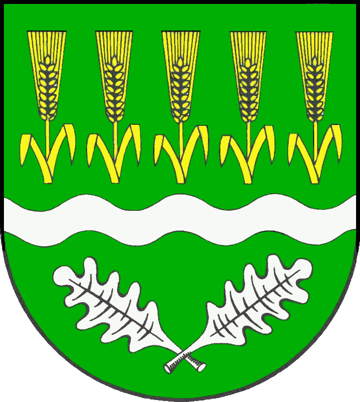 Coat of arms of the municipality Silberstedt in Schleswig-Holstein, Germany.